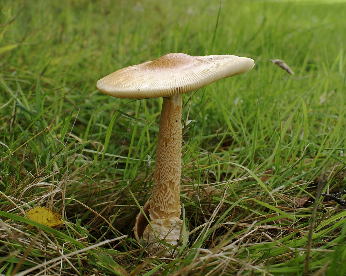 Amanita crocea from Lennoxtown, East Dunbartonshire, Schottland